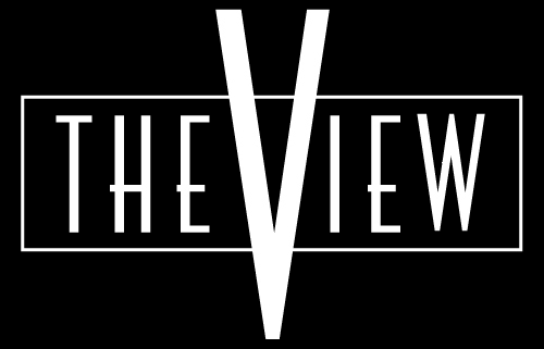 Logo for the ABC daytime talk show The View.